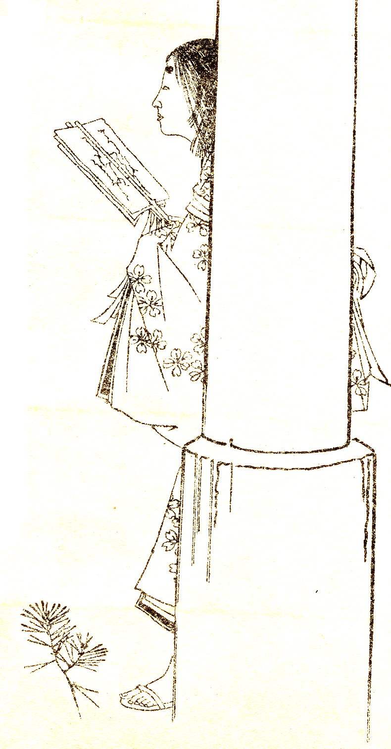 Akazome Emon (赤染衛門) was a Japanese waka poet who lived in the mid-Heian period. This picture was drawn by Kikuchi Yosai（菊池容斎） who was a painter in Japan.